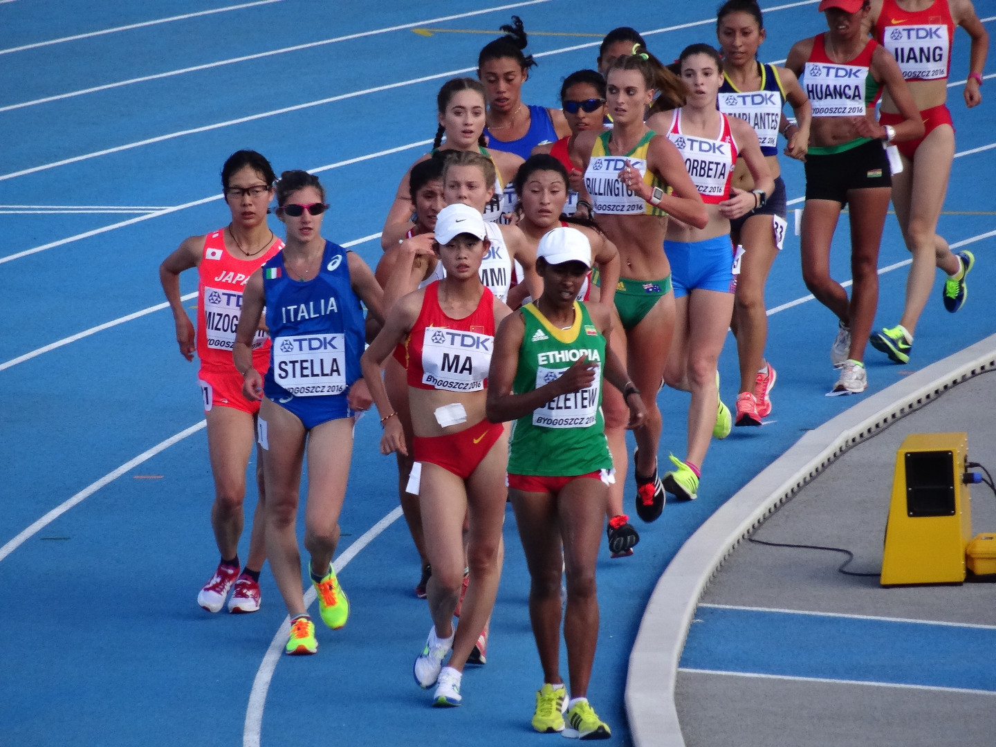 2016 IAAF World U20 Championships in Bydgoszcz, 10000m walk women